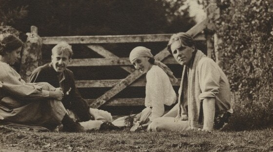 Noel Olivier; Maitland Radford; Virginia Stephen; Rupert Brooke, camping at Clifford Bridge, Dartmoor, 1911. Virginia wears a neopagan headscarf. For more information see Dartmoor scenes